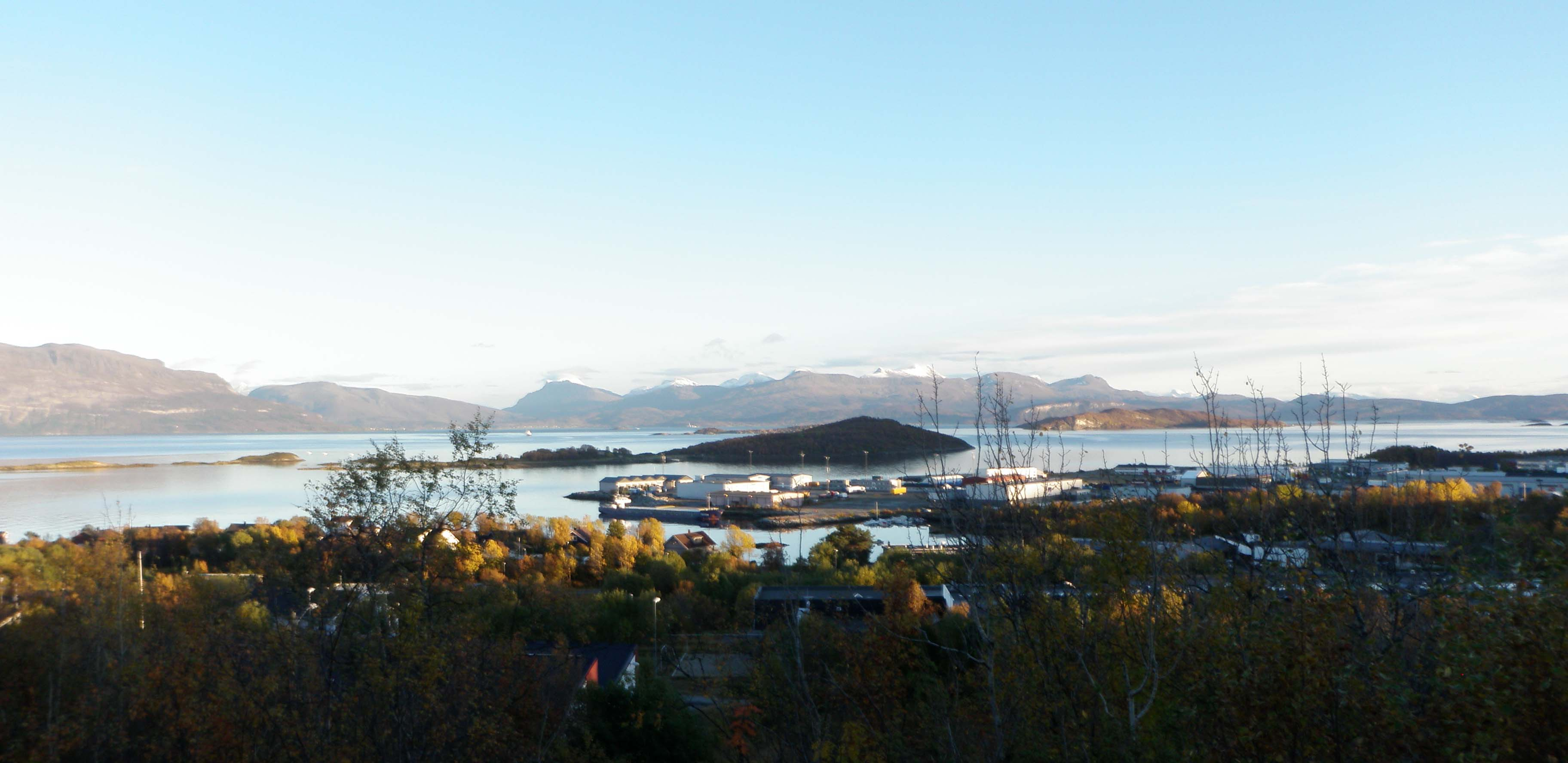 The south-eastern part of Stangnes in Harstad, Troms, Norway, viewed from a nearby hill.